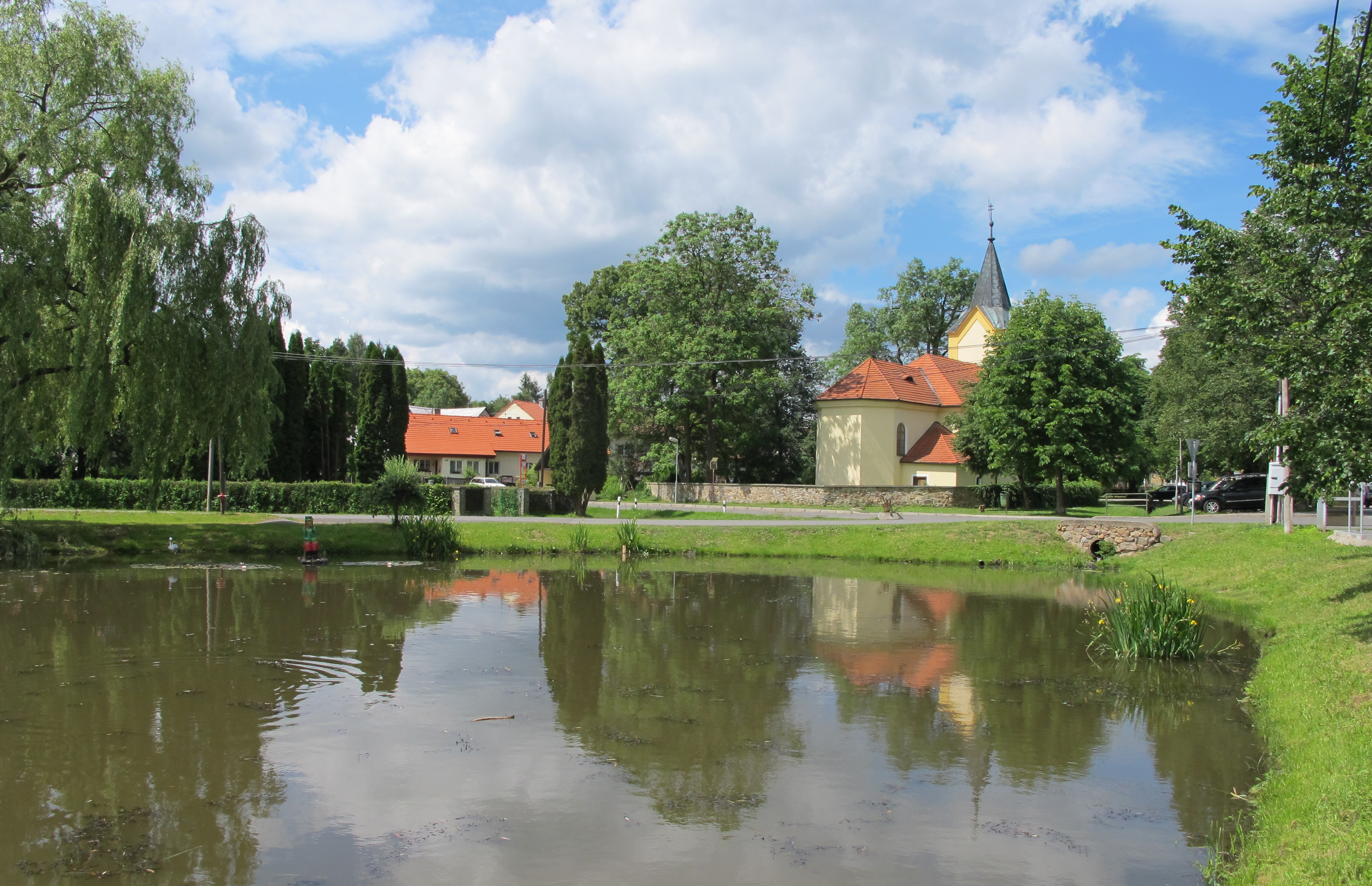 Pond and Church of Assumption of Mary in Kytín in Prague-West District